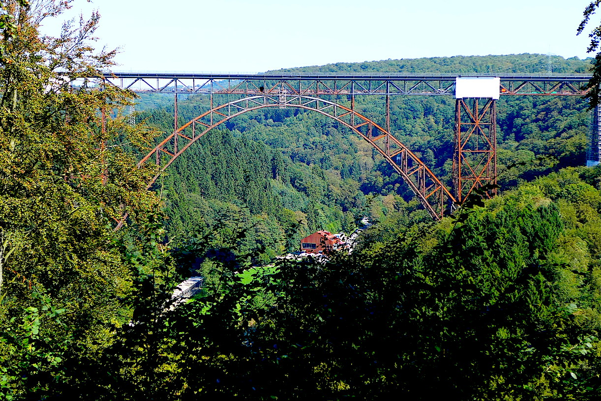 "Blade track" - the tourist marked route around the German city of Solingen (Northern Rhine-Westphalia). Second stage: Kohlfurth - Unterburg, 8,5 km.